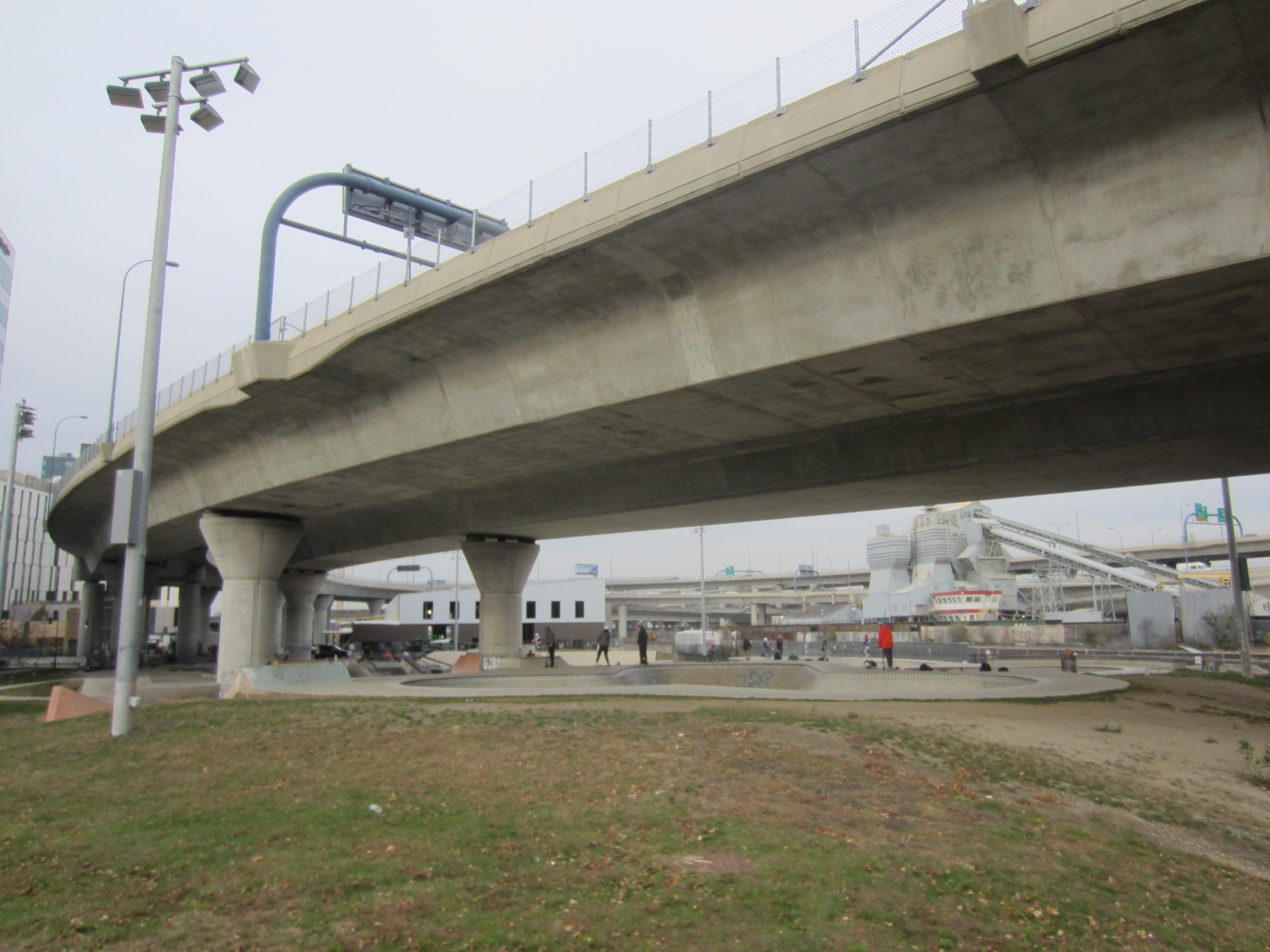 Boston (2019)